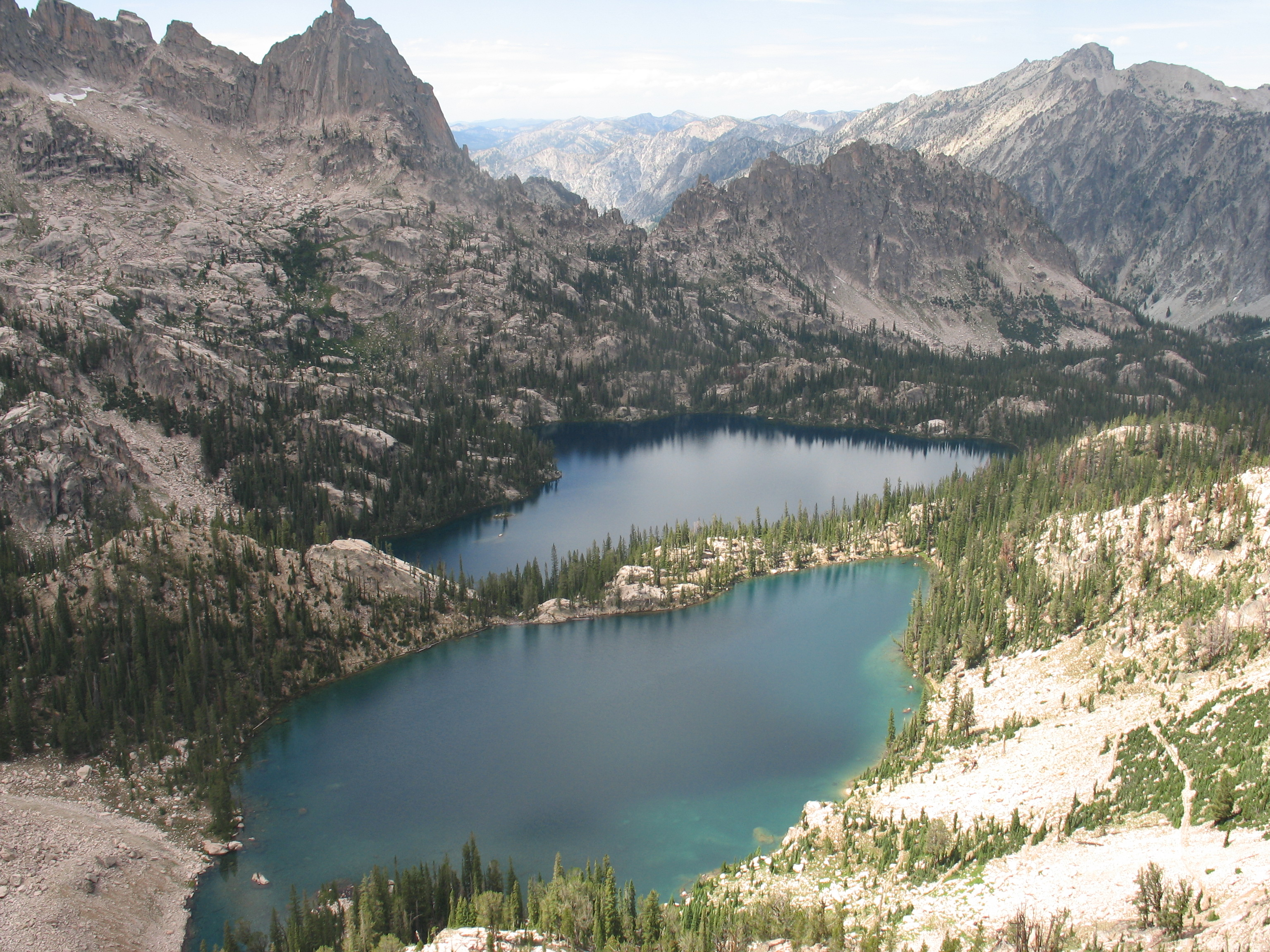 View of Baron Lakes from Baron Pass, Sawtooth Wilderness, Idaho